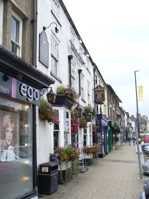 King's Head, Bedale One of many inns along the long and wide market place.